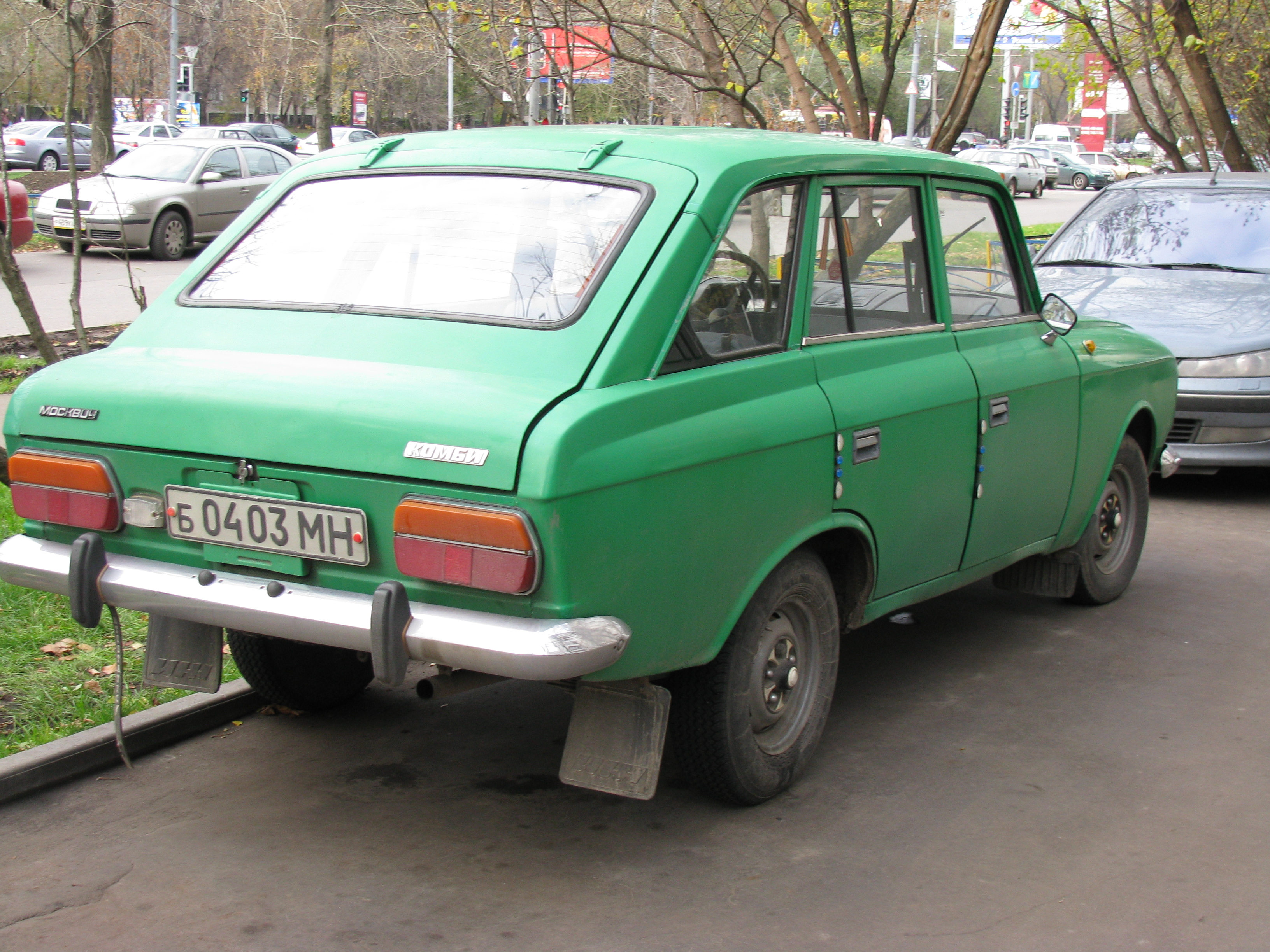 IZh-21251 in Moscow